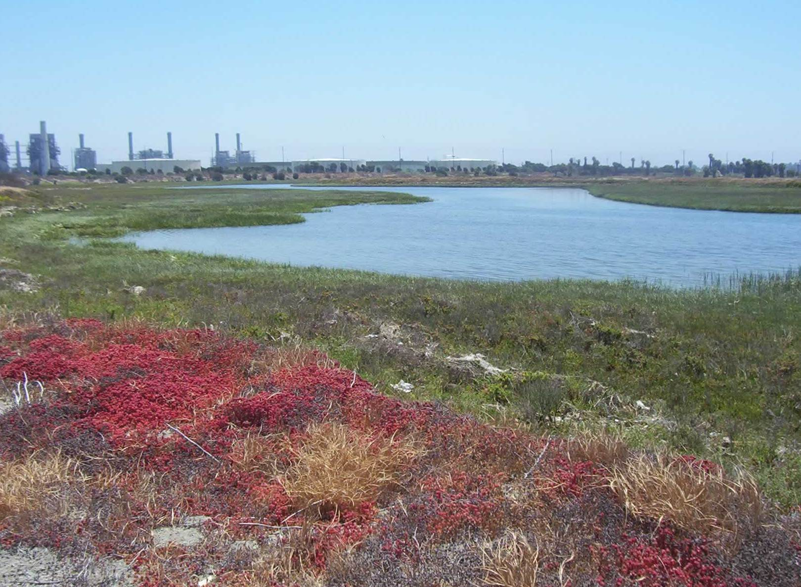 The Los Cerritos Wetlands at Steam Shovel Slough, in the Los Angeles region.